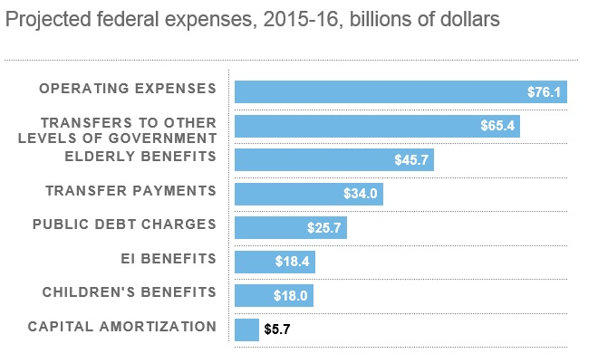 An outline of the Canadian government's projected expenses for the 2015 fiscal year, as reported in the Toronto Star, citing the federal budget document, presented for first reading on April 21, 2015.